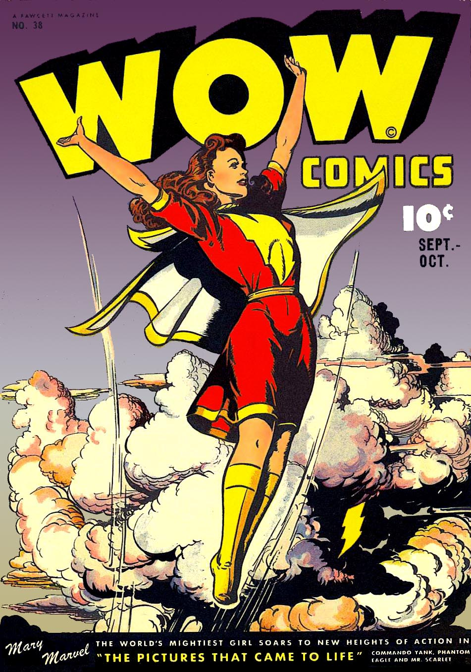 Cover scan of a Wow comic nº 38.